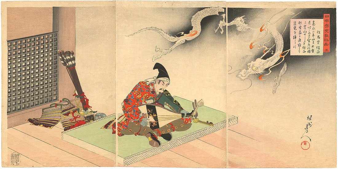 From the series Nihon Rekishi Kyokun Ga – Lessons from Japan's History - Tajima no kami Norimasa playing his biwa